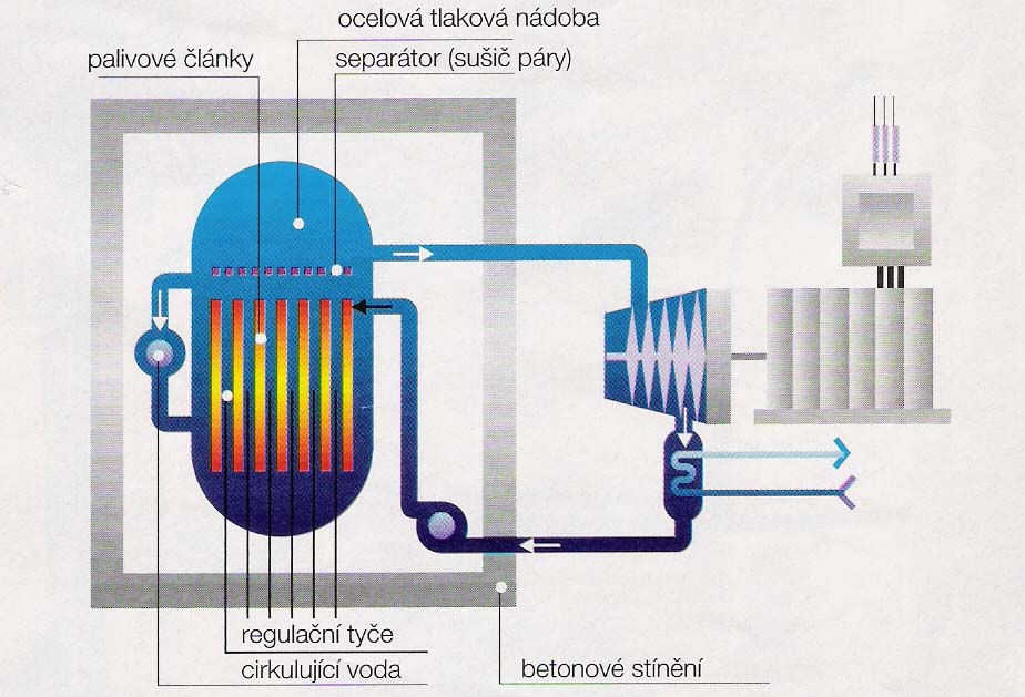 Boiling Water Reactor